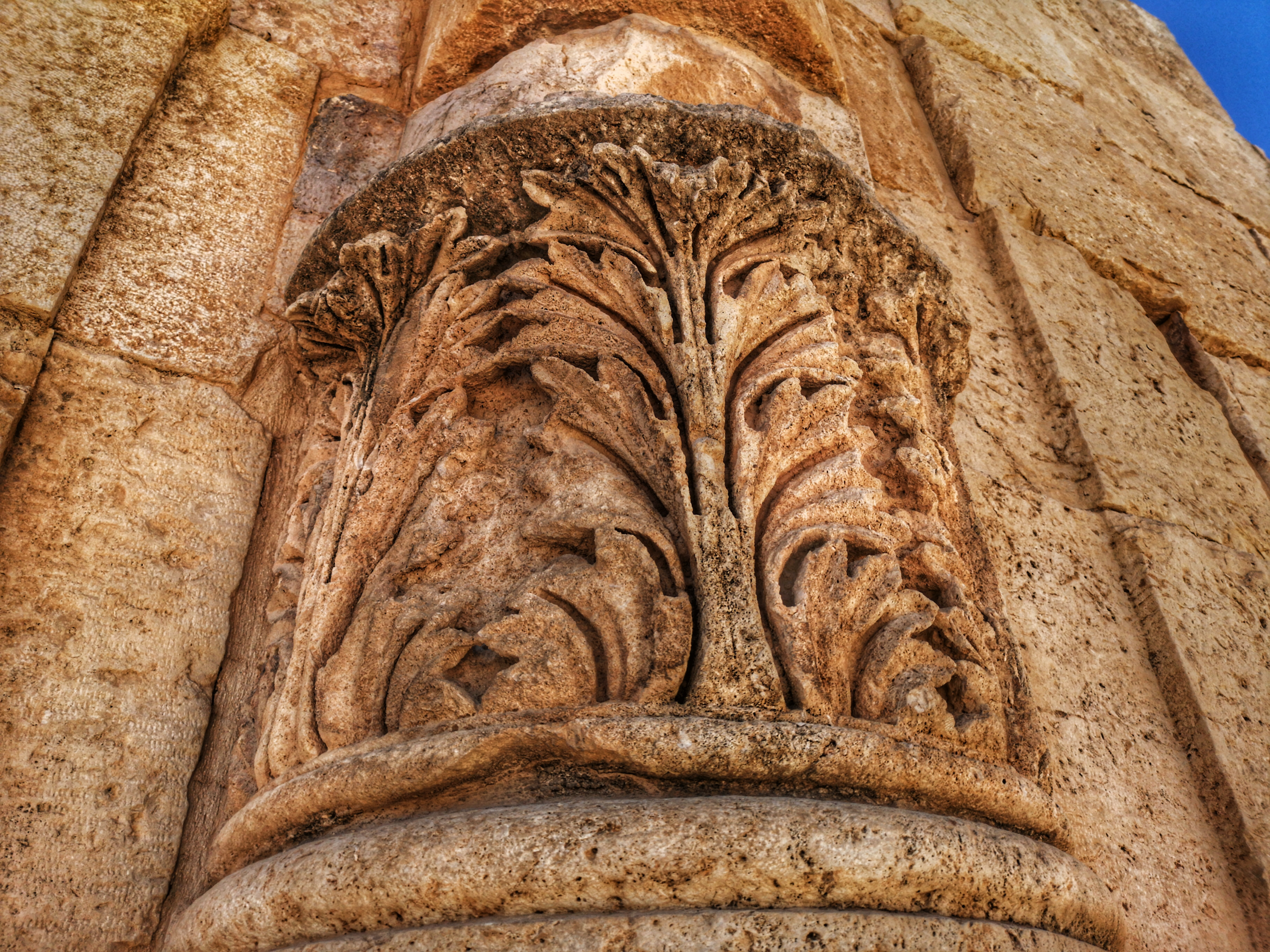 Intricate sculpting of pillar capitals by the Romans in Jerash (Jordan)